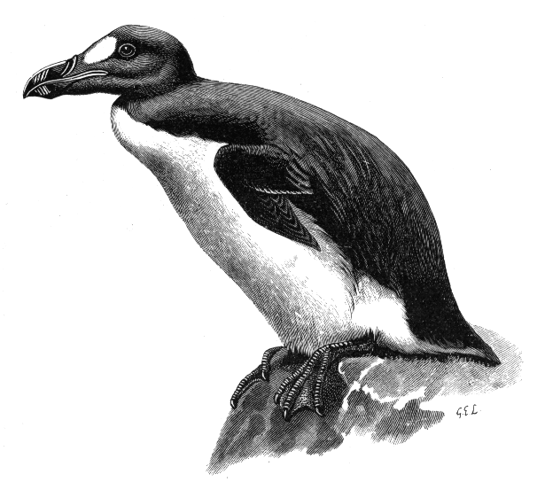 Great Auk, Alca impennis, engraving.